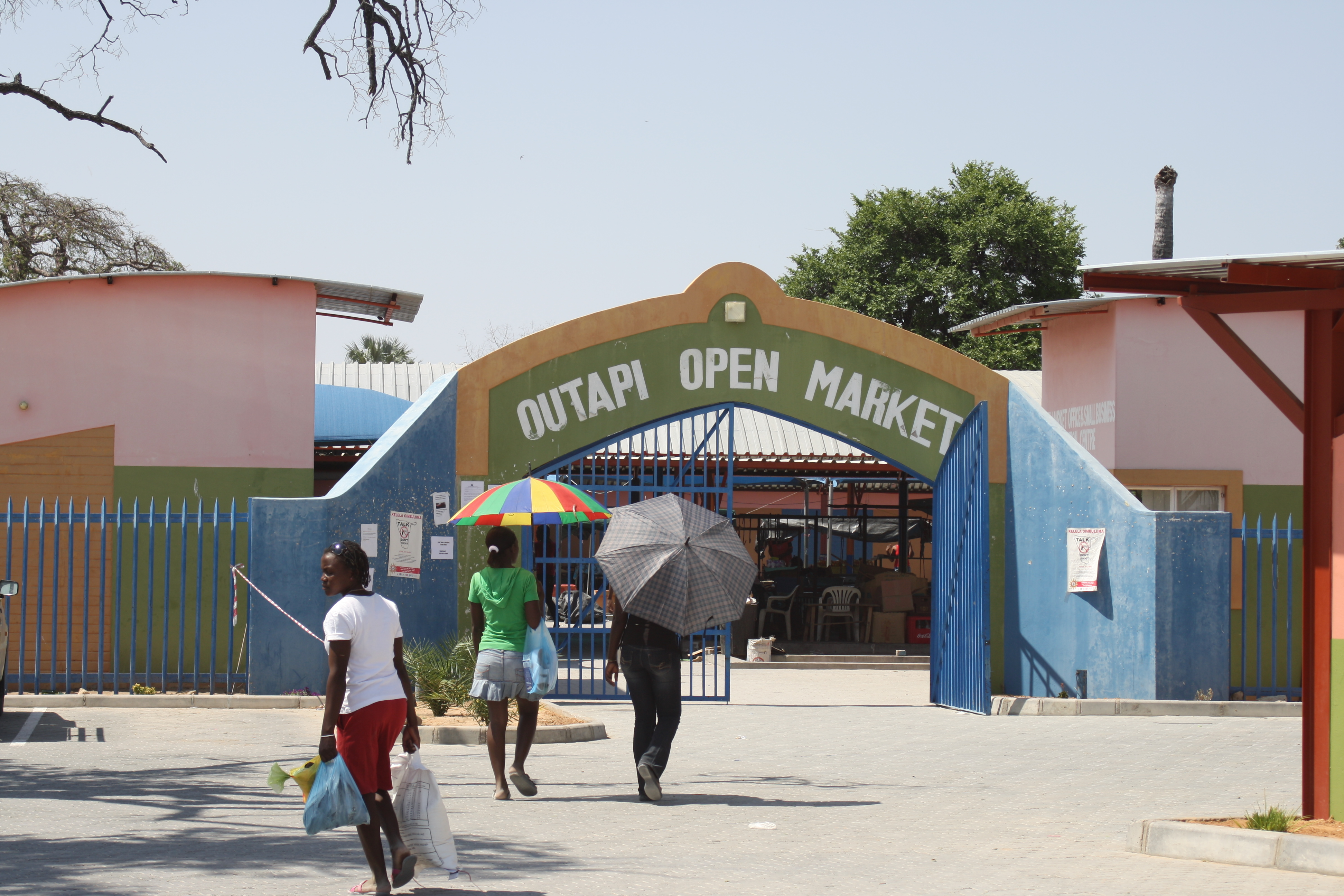 The entrance of the Open Market of Outapi, Omusati, Namibia.